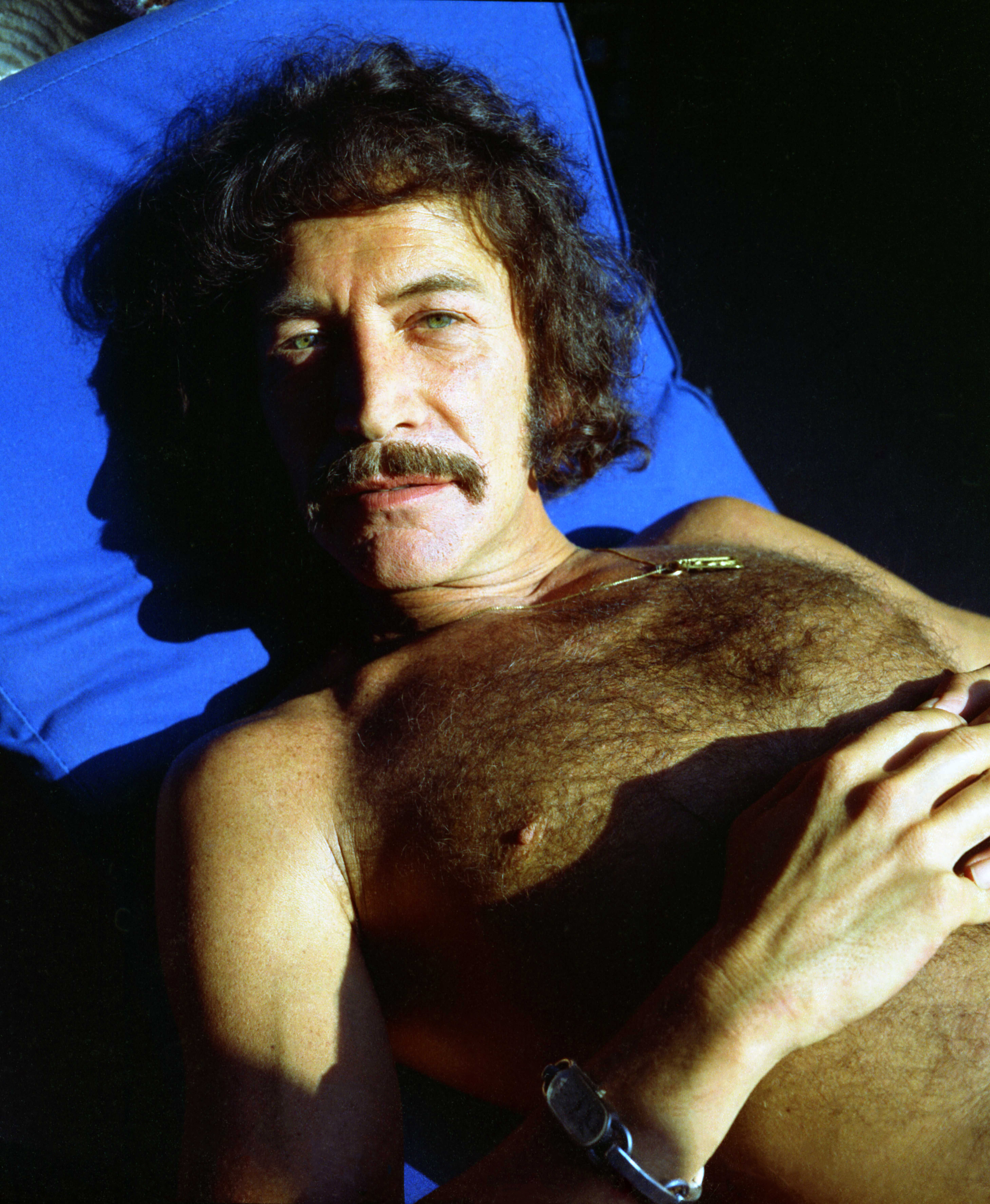 Peter Wyngarde